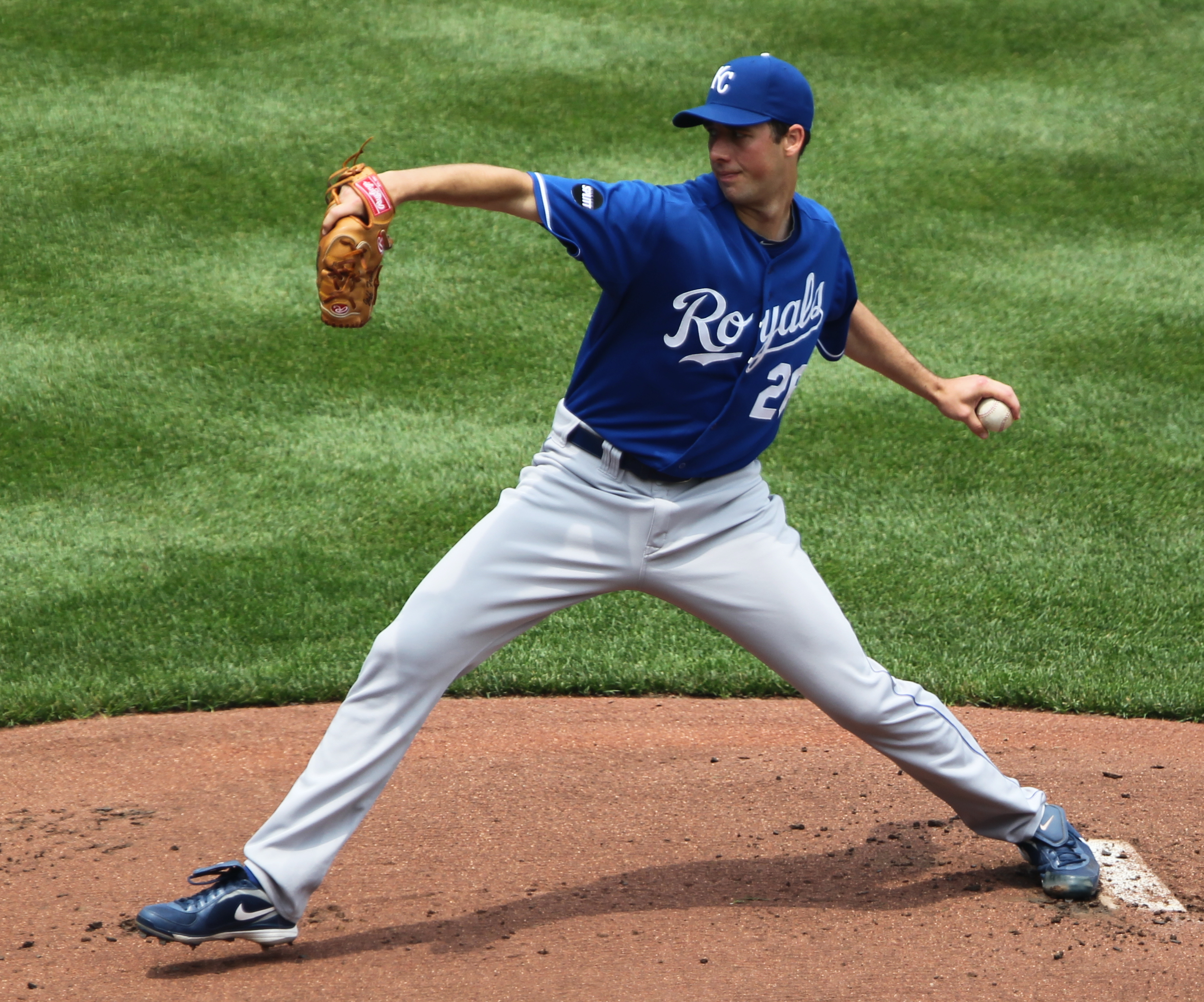 Jeff Francis